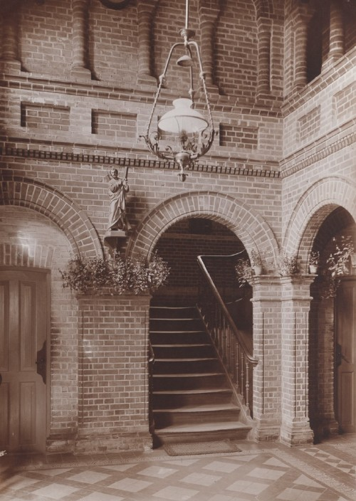 The vestibule of Sankt Andreas Kollegiet at Ordruphøj north of Copenhagen, Denmark